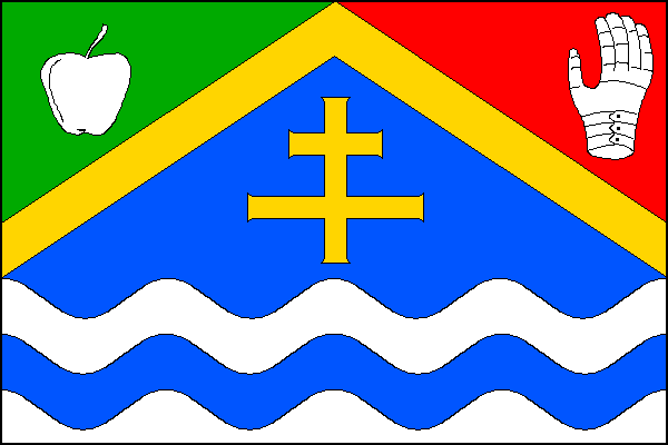 Municipal flag of Sloupno village, Hradec Králové District, Czech Republic.